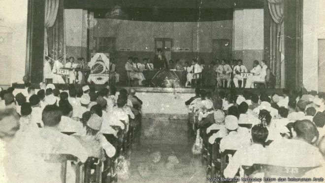 PAI (Persatoean Arab Indonesia) Congress in Cirebon, 1940